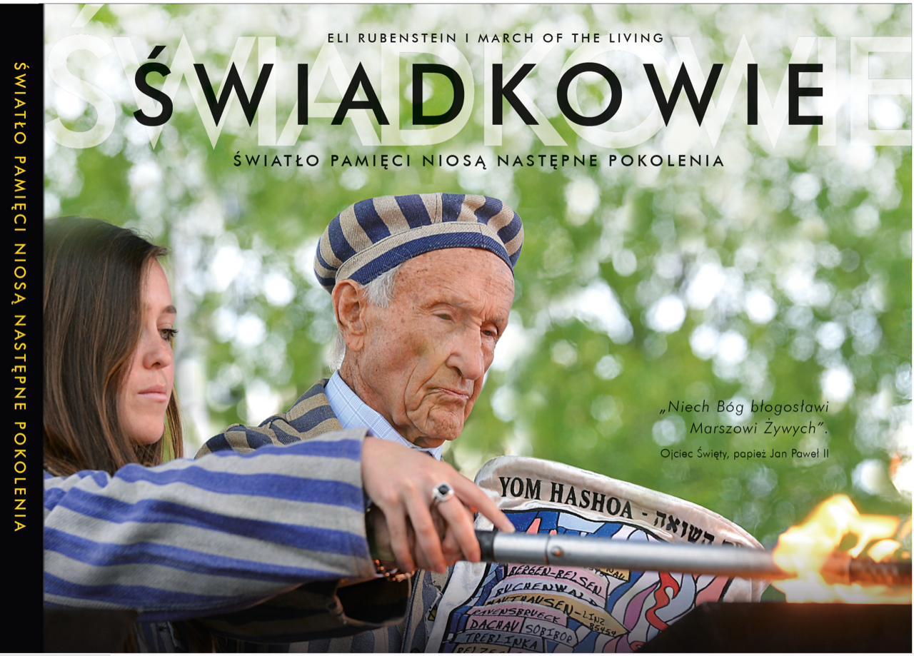 Witness - Passing the Torch of Holocuast Memory, Polish Edition